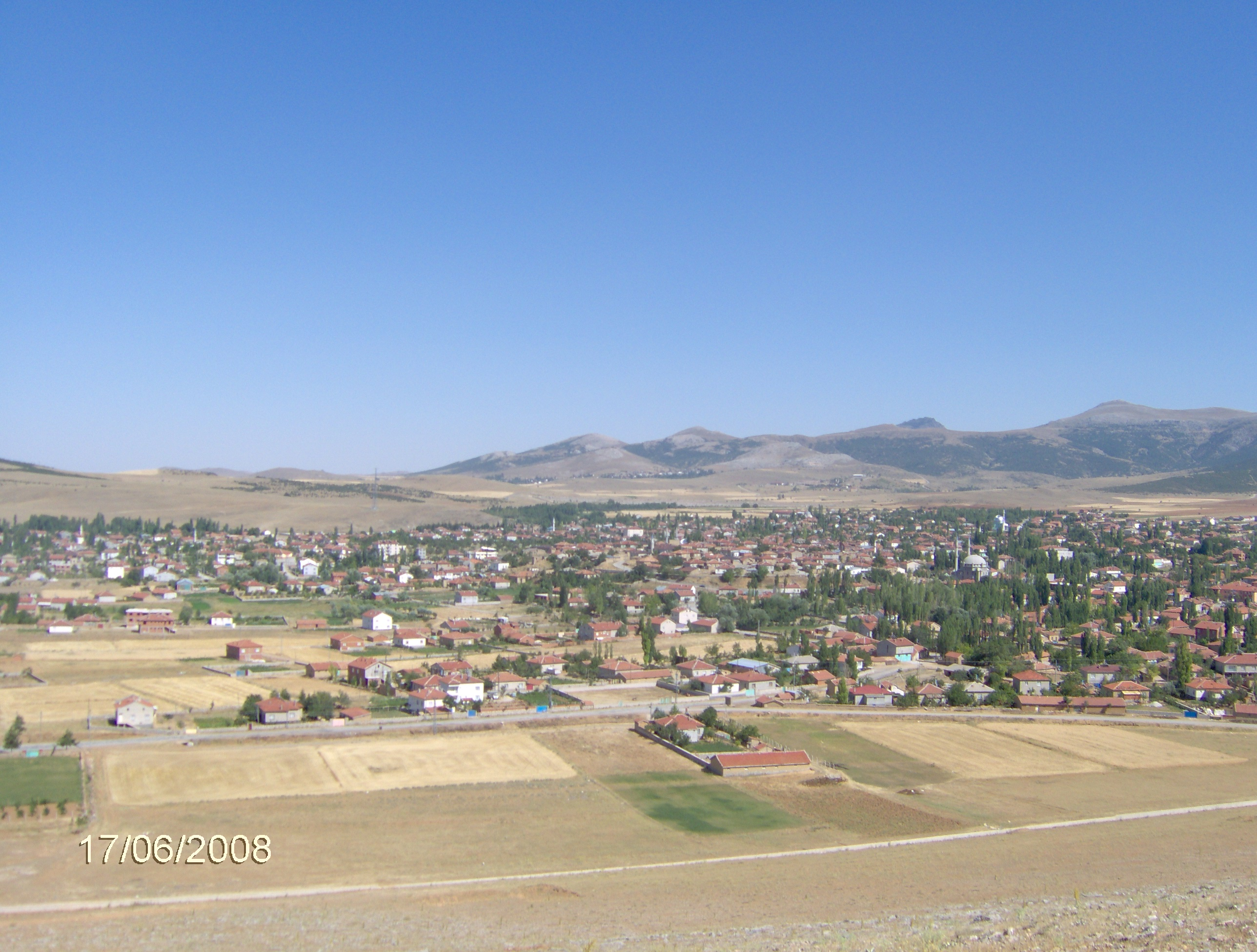 General view of Ladik, Sarayönü.